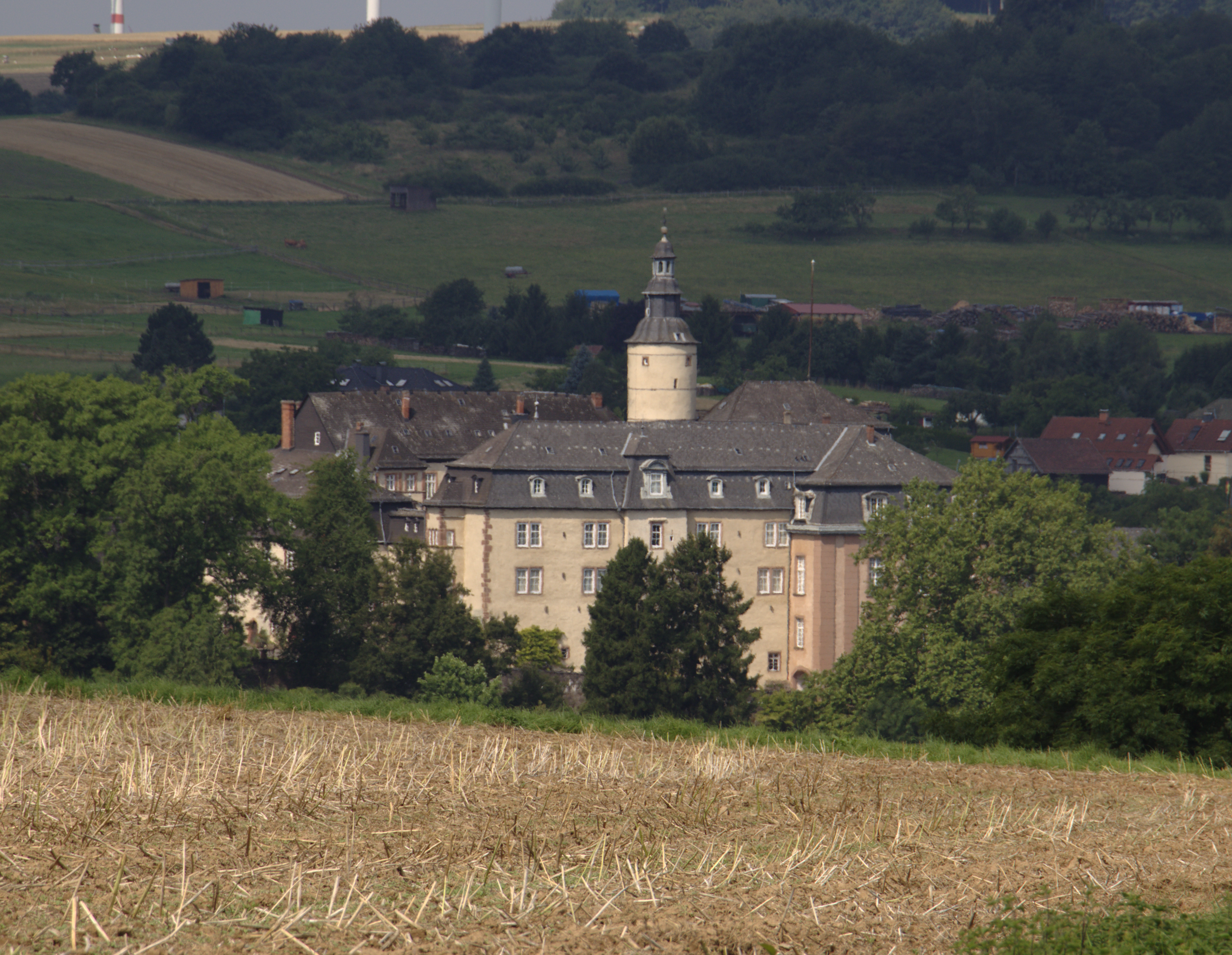 Schloss Birstein in Birstein, Hesse, Germany